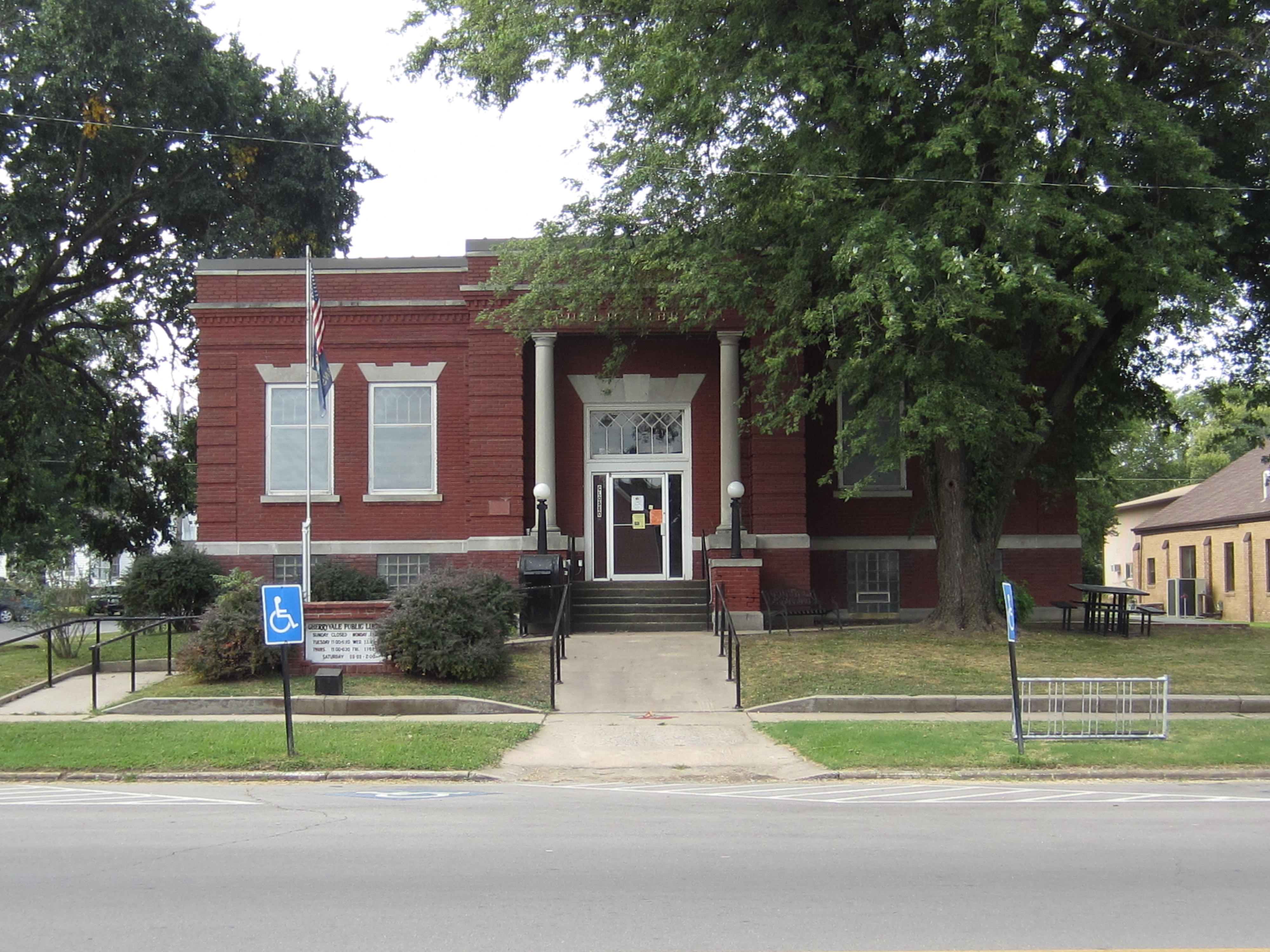 Carnegie Public Library Cherryvale. (Sept. 2013)